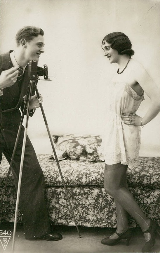 Photo from Editions Ostra, brothers Biederer, Paris.